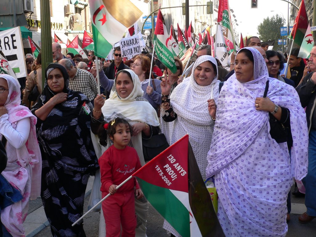 Demonstration in Madrid 11-11-2006 in support of Western Sahara's self determination.